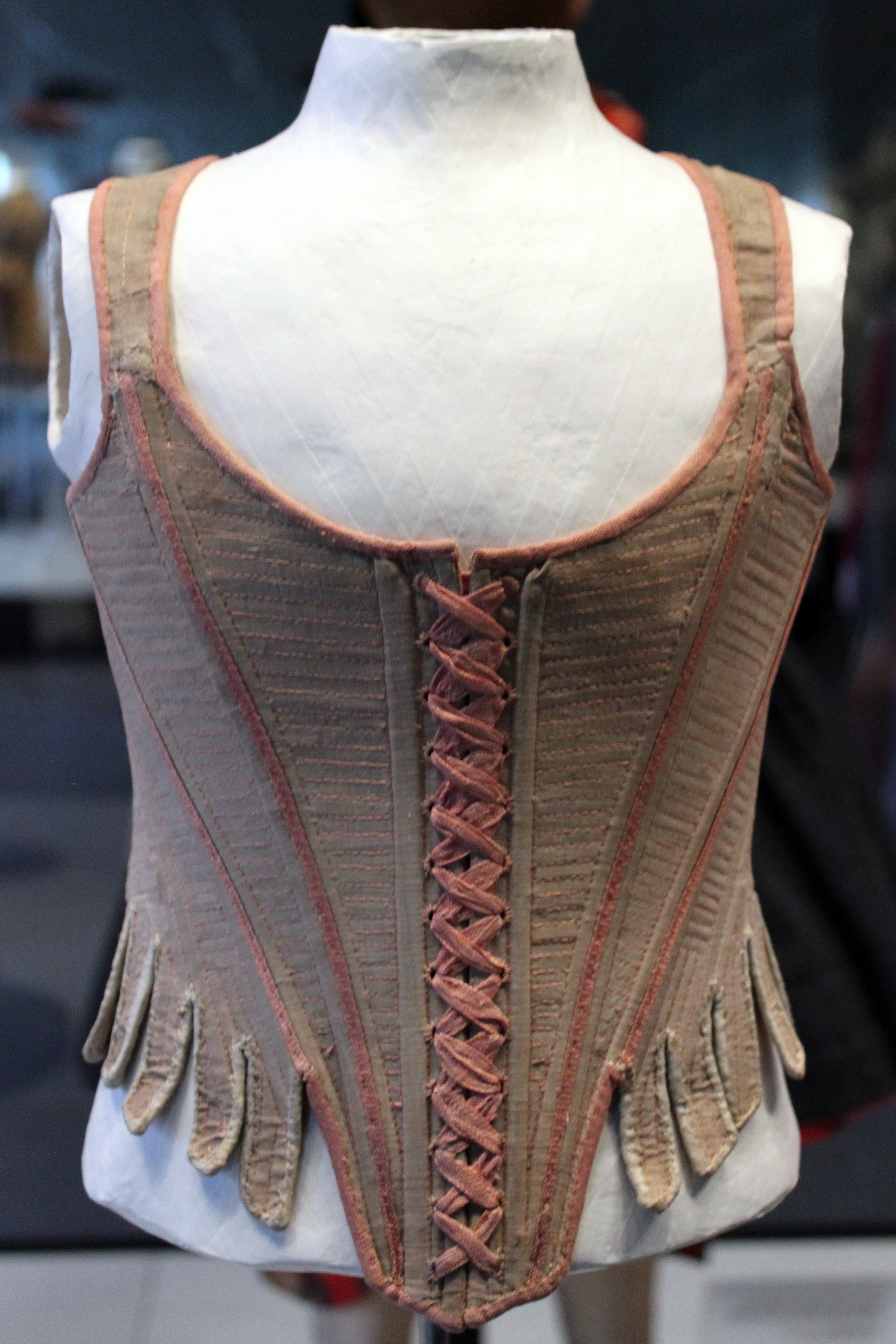 Children Bodice, 1770; Germanic National Museum in Nuremberg